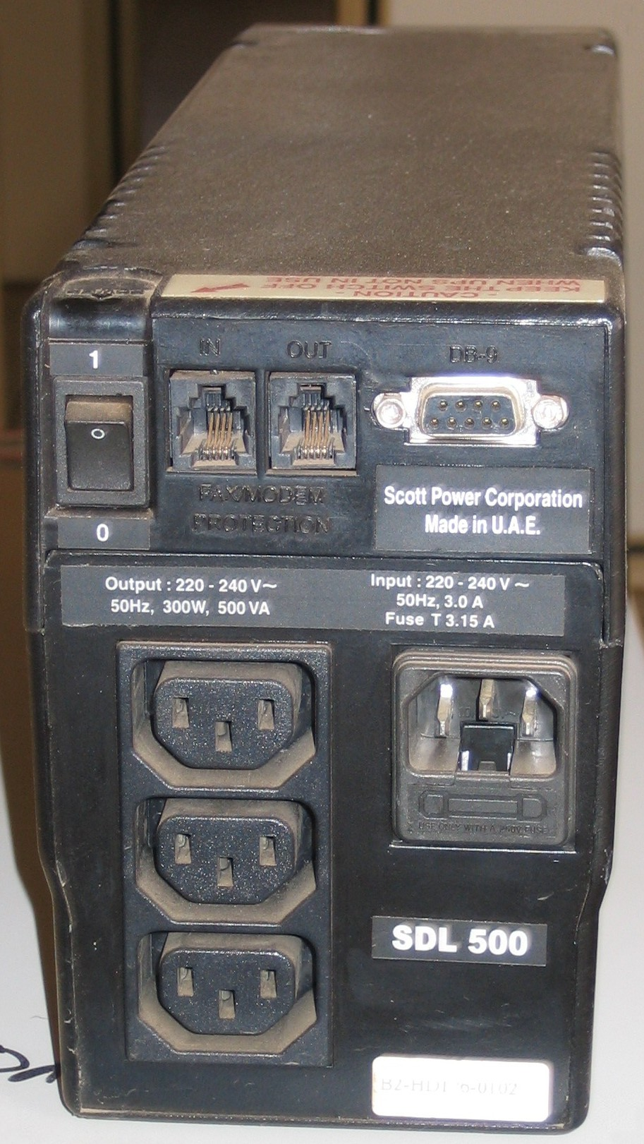 This UPS has one IEC 60320 C14 input and three C13 outputs.